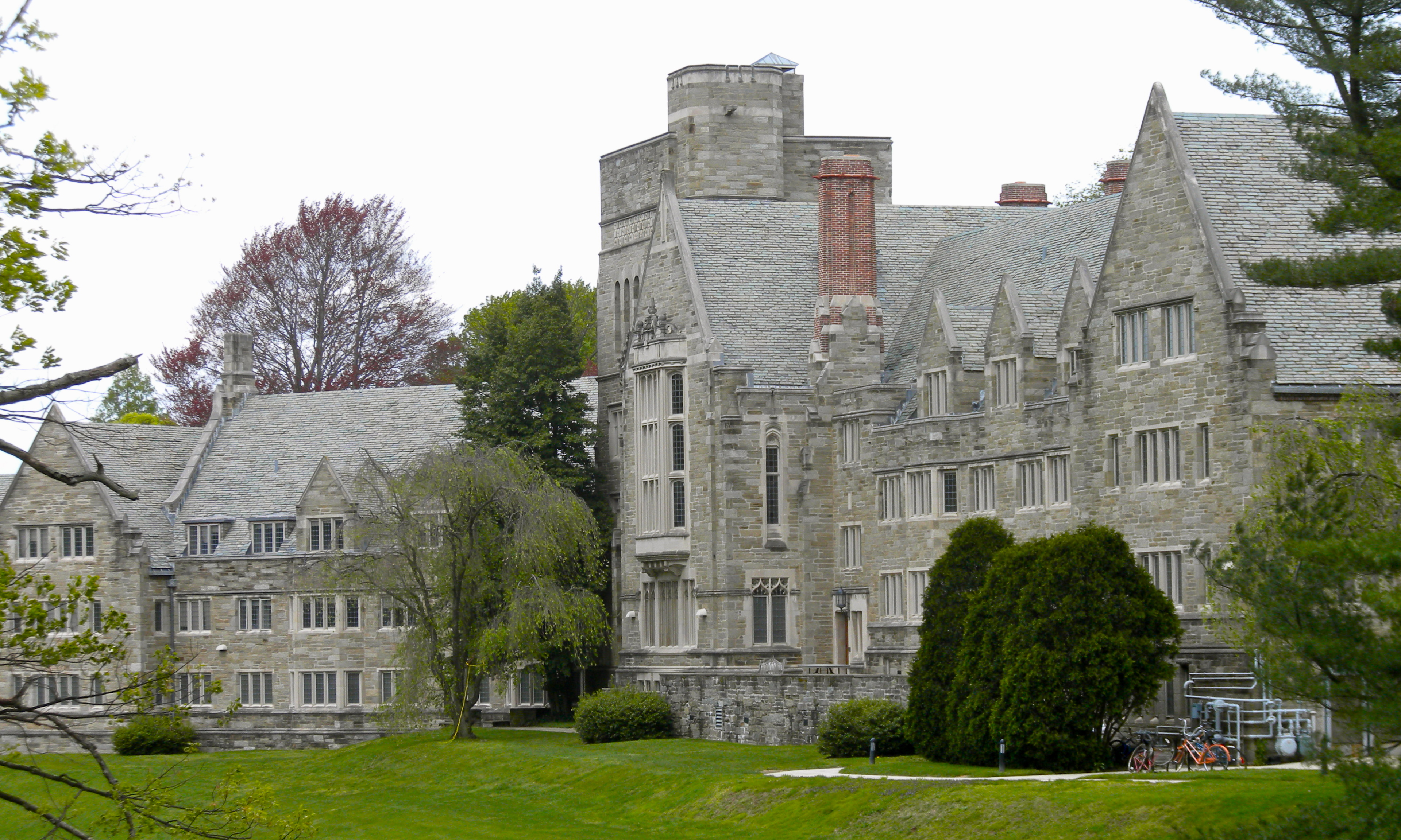 Rhoads Hall (completed 1937) in the Bryn Mawr College Historic District which has been on the NRHP since May 4, 1979 HD (campus) is between Morris Avenue, Yarrow Street and New Gulph Road in Bryn Mawr, Montgomery County, Pennsylvania, about 11 miles NW of Philadelphia.